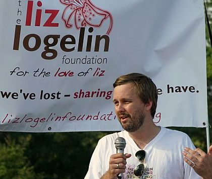 NY Times Best Selling author Matt Logelin speaks to the crowd at the Liz Logelin Memorial 5K.